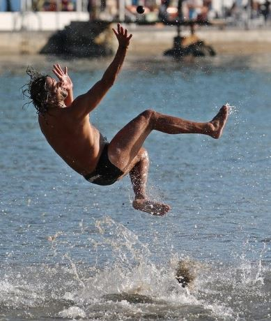 Picigin player in action on Bačvice beach in Split